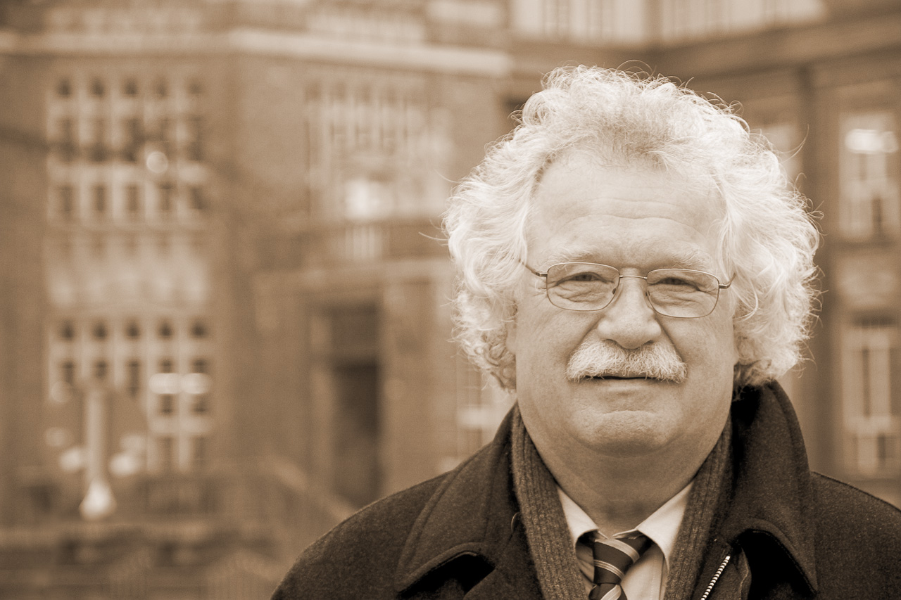 Eberhard Burger, master builder during the reconstruction of the Frauenkirche in Dresden